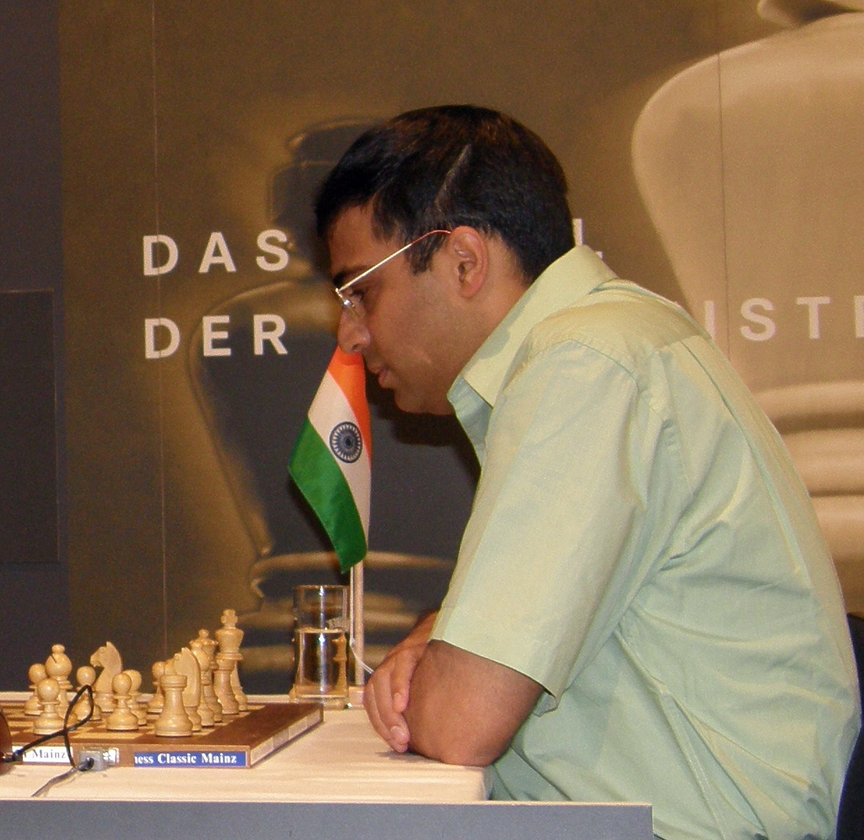 Viswanathan Anand – Indian grandmaster.